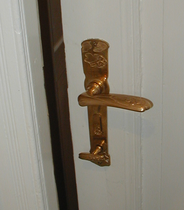 A doorhandle of a bathroom in Berlin (Germany). Picture taken (on 2 Jun 2004) and uploaded by Roger McLassus.